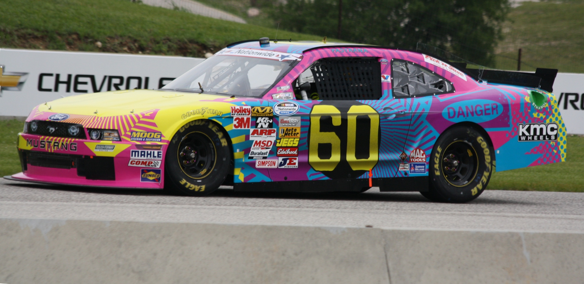 The NASCAR Nationwide car of Travis Pastrana during the w:2013 Johnsonville Sausage 200 at Road America.